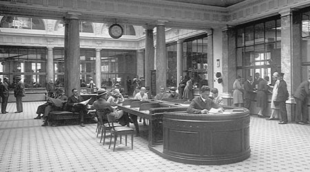 Photo (c. 1930s) of the interior of the Schweizerische Kreditanstalt (later Credit Suisse) main building at Paradeplatz in Zurich, Switzerland. After a construction period of three years, SKA moves into the new building on Paradeplatz, which was designed by the famous architect Jakob Friedrich Wanner, on September 25, 1876.